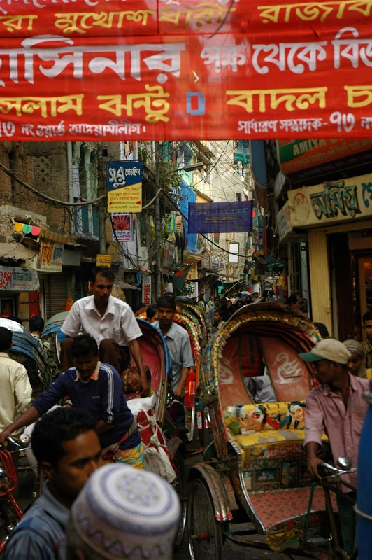 Hindu Street/Shankharia Bazar in Dhaka, Bangladesh. Full of pedestrians, cycle rickshaws and Bengali banners and signs.